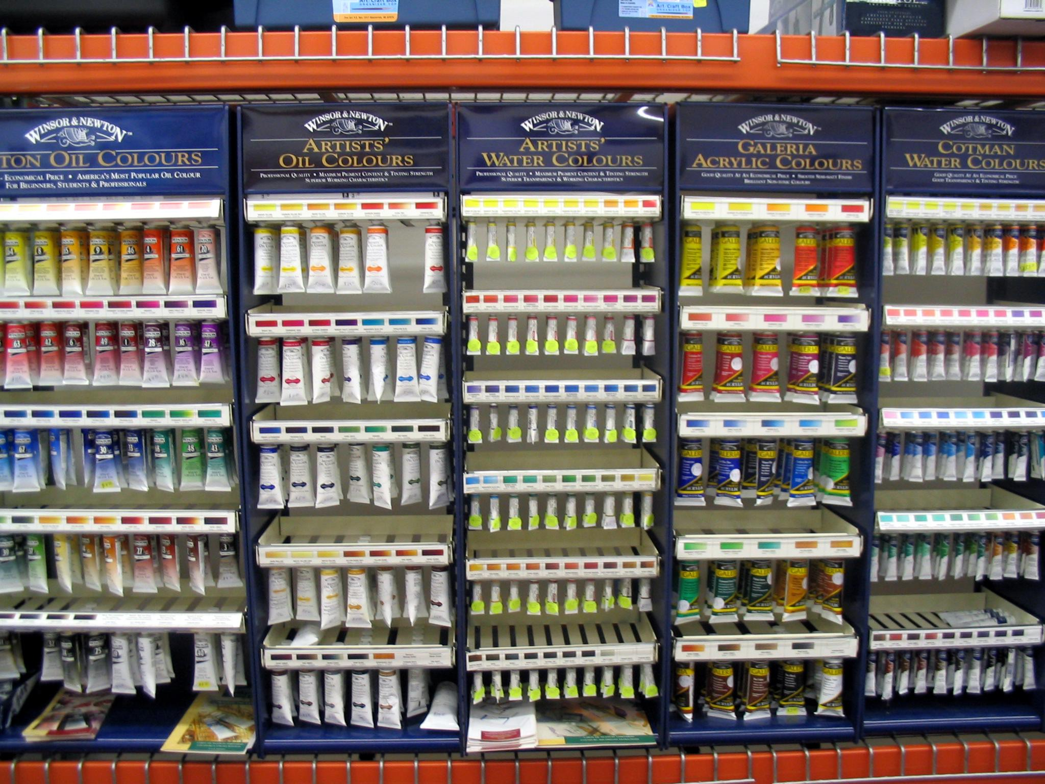 Artist's paints